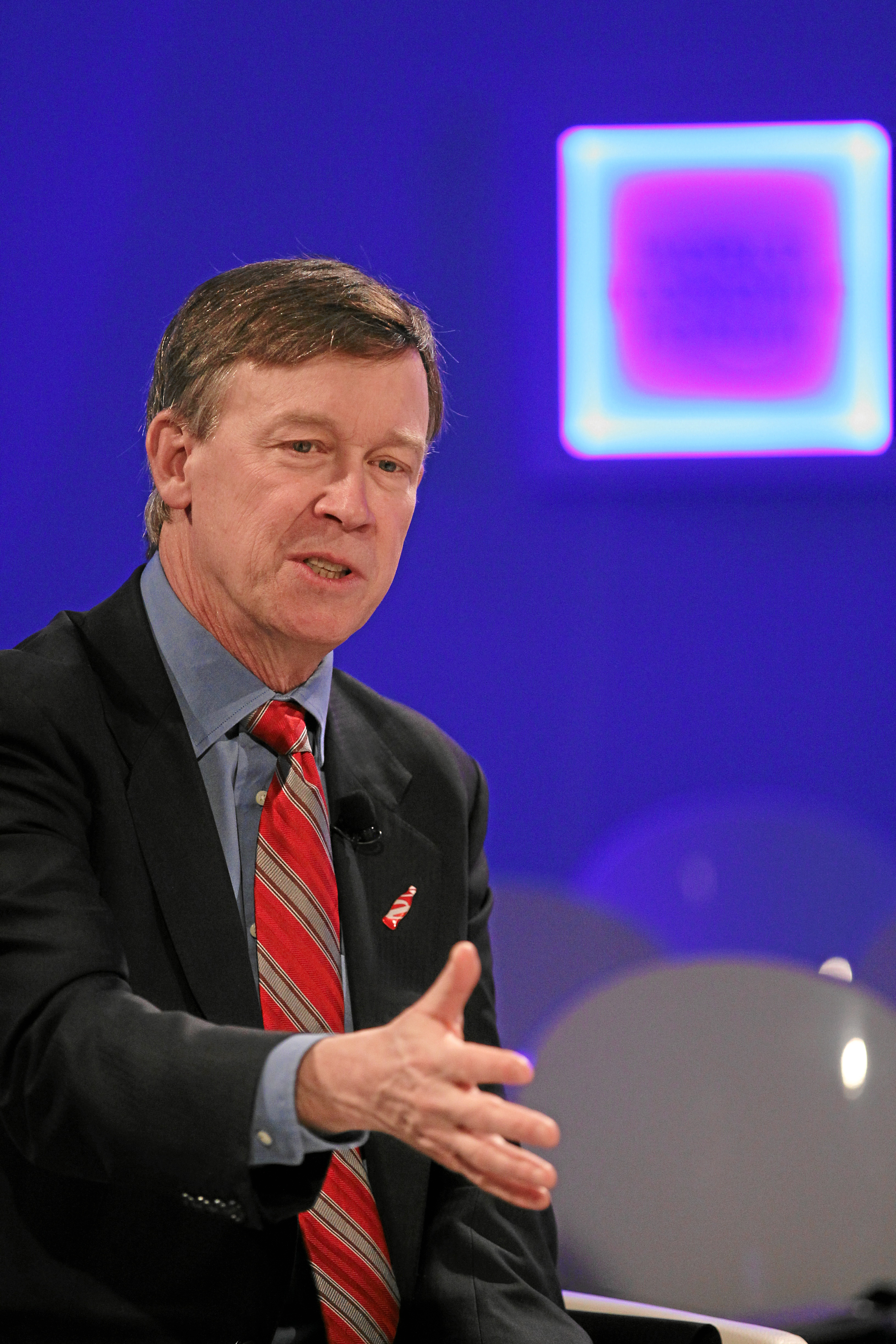 DAVOS/SWITZERLAND, 26JAN13 - John W. Hickenlooper, Governor of Colorado, USA speaks during the Session 'Building National Innovation Capacity' at the Annual Meeting 2013 of the World Economic Forum in Davos, Switzerland, January 26, 2013.. . Copyright by World Economic Forum. . Moritz Hager